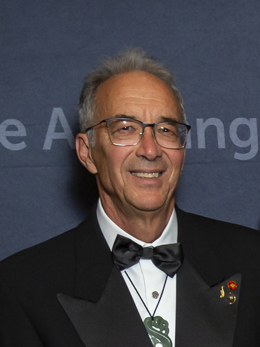 Ngā Pae o te Māramatanga, New Zealand's Māori Centre of Research Excellence, has received the inaugural Te Rangaunua Hiranga Māori Award by Royal Society Te Apārangi, which recognises excellent, innovative co-created research conducted by Māori that has made a distinctive contribution to community wellbeing and development in Aotearoa. This was at Research Honours Aotearoa, an annual awards ceremony that recognises achievements and contributions of innovators, kairangahau Māori, researchers and scholars in science, technology and humanities throughout Aotearoa New Zealand, which was held in Ōtepoti Dunedin on 17 Whiringa-ā-nuku October 2019. Representing Ngā Pae o te Māramatanga here is Michael Walker.